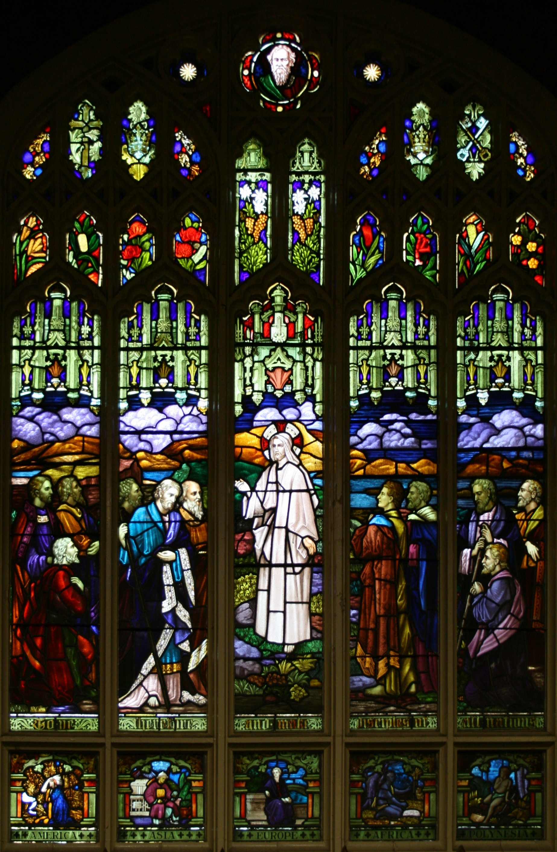 Main stained glass window at St. Andrew's Anglican Church, Roseville, New South Wales (NSW), Australia.